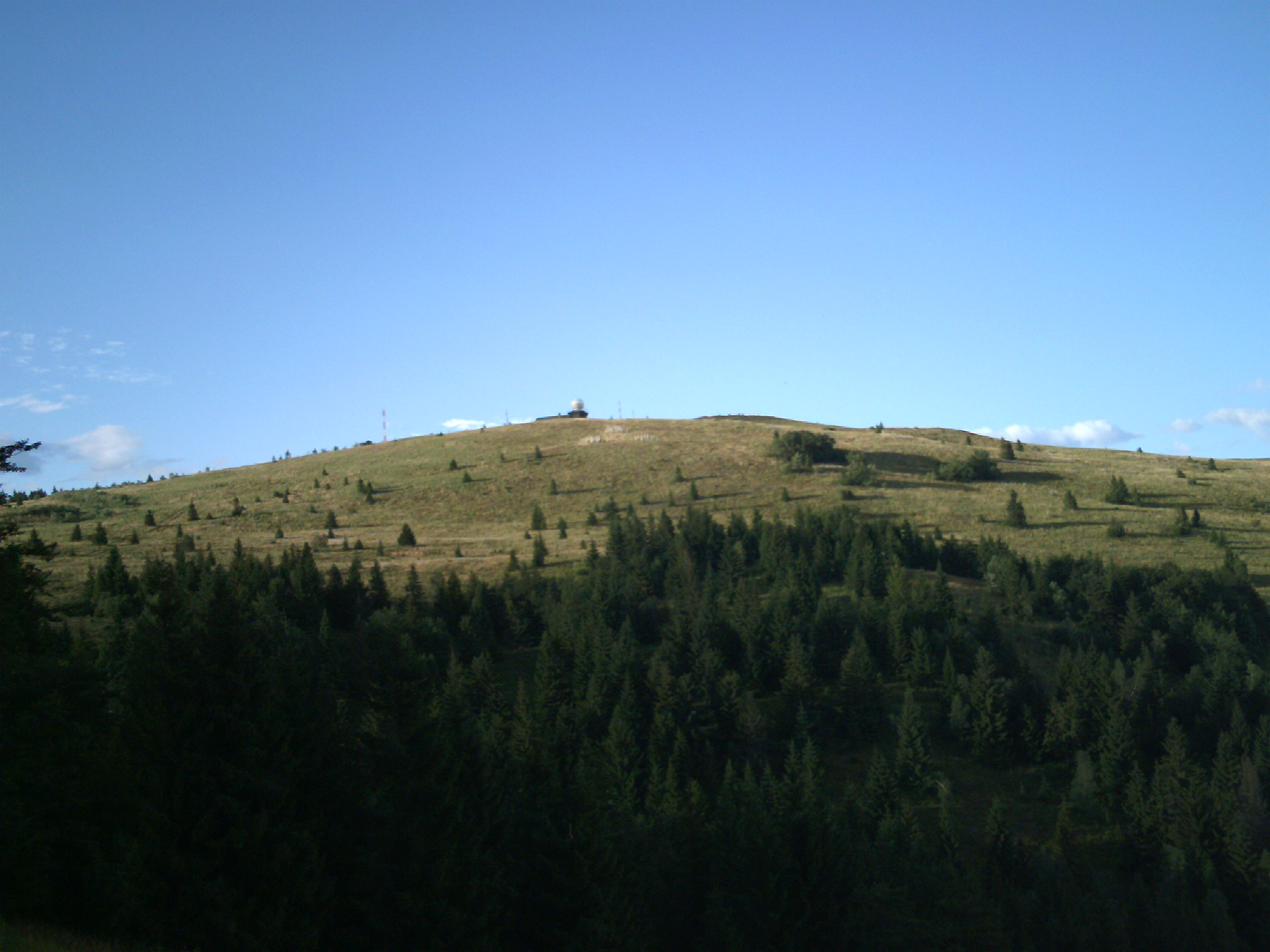 Kojsovska hola in Slovakia